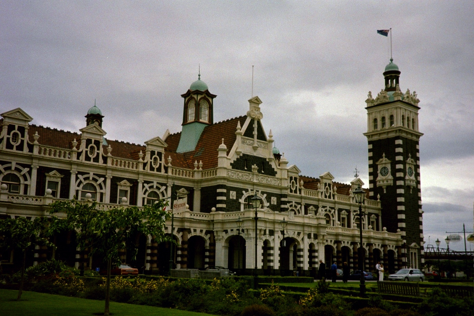 Dunedin Railway Station, Dunedin, New Zealand.